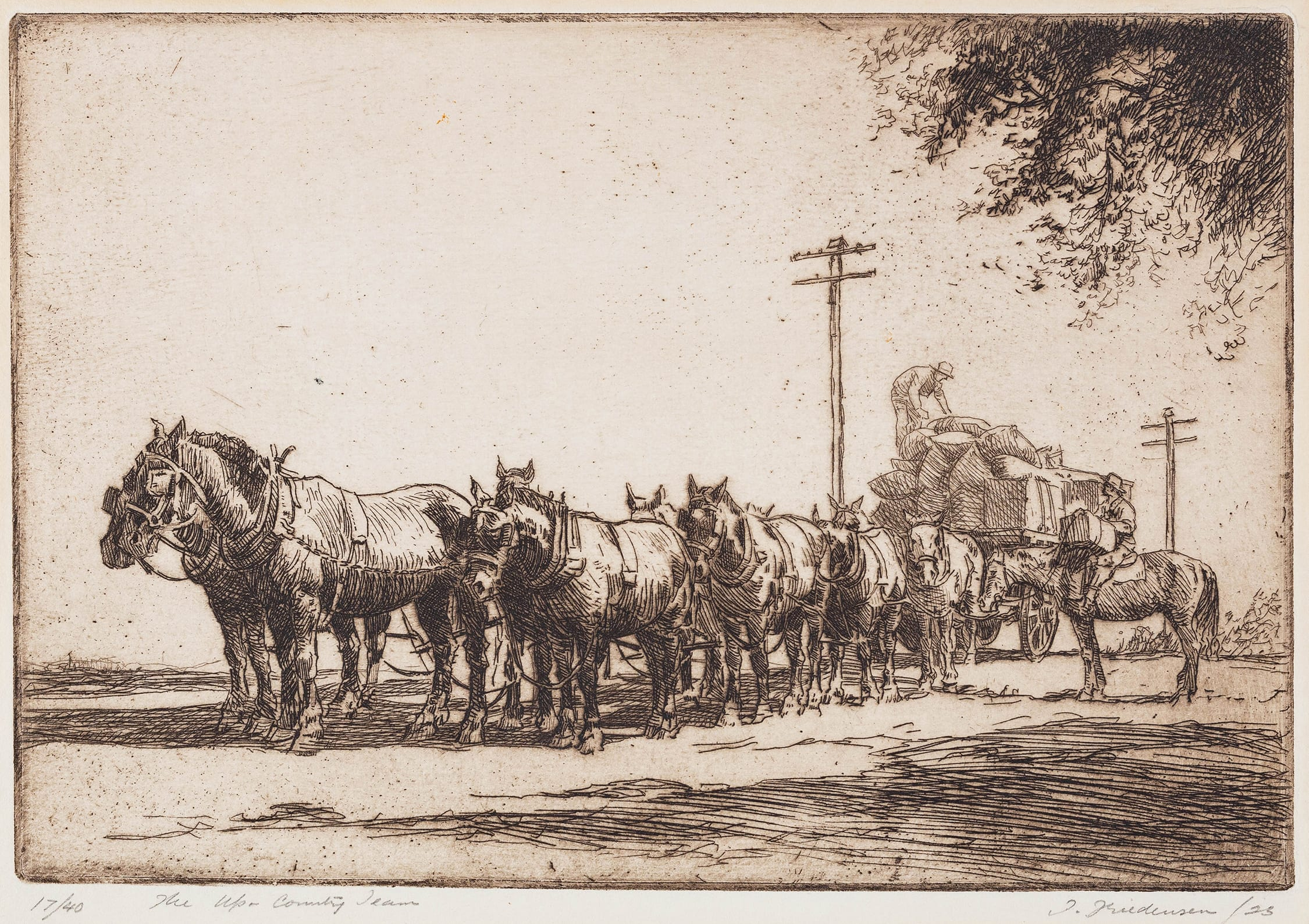 Offered for sale by Abbott and Holder in March 2020 when it was described as "Australia: ‘The Up Country Team’. Etching. Signed, inscribed, editioned 17/40 and dated, 1923. 6x8.75 inches."